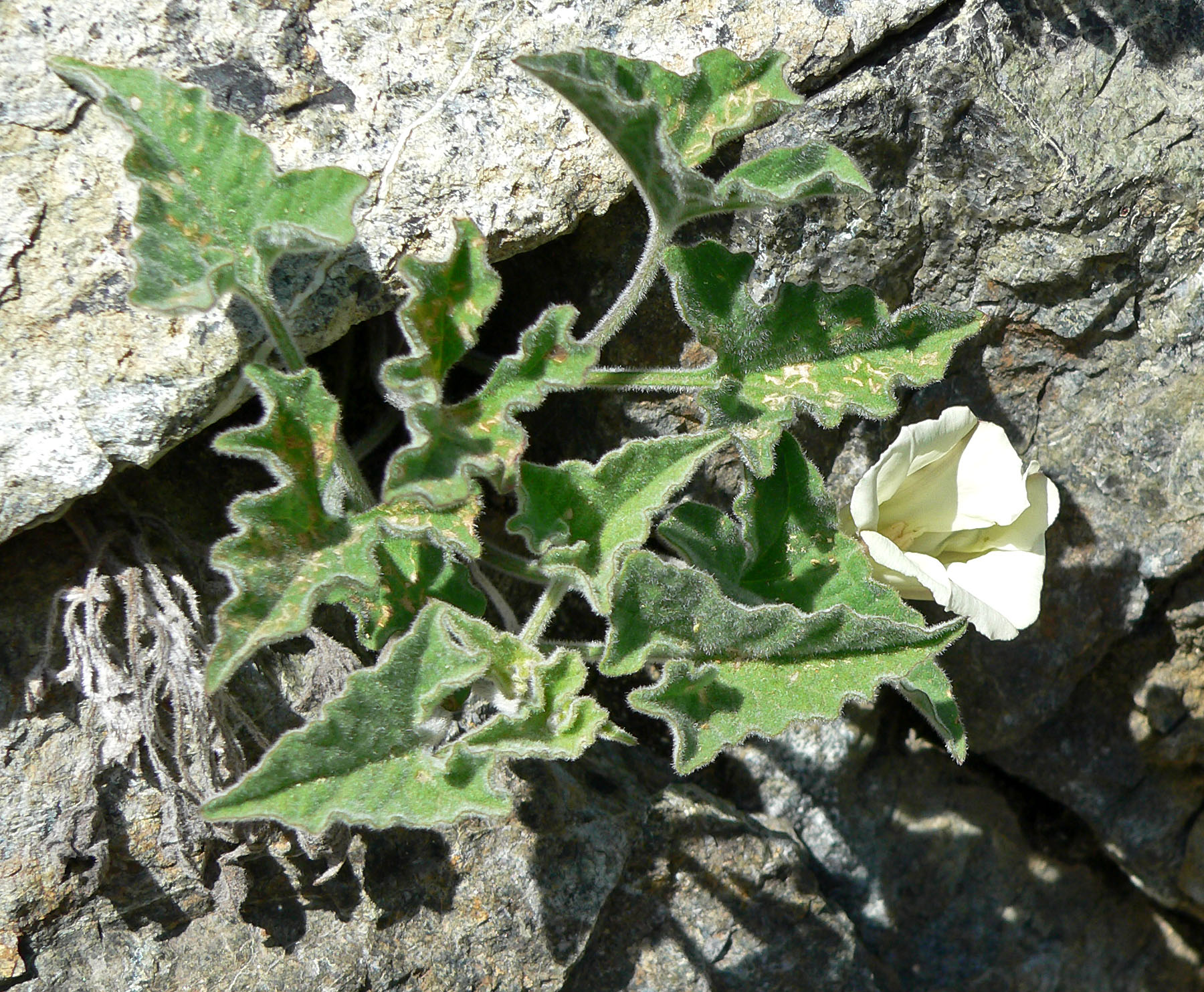 Calystegia collina ssp. oxyphylla at the University of California Botanical Garden, Berkeley, California